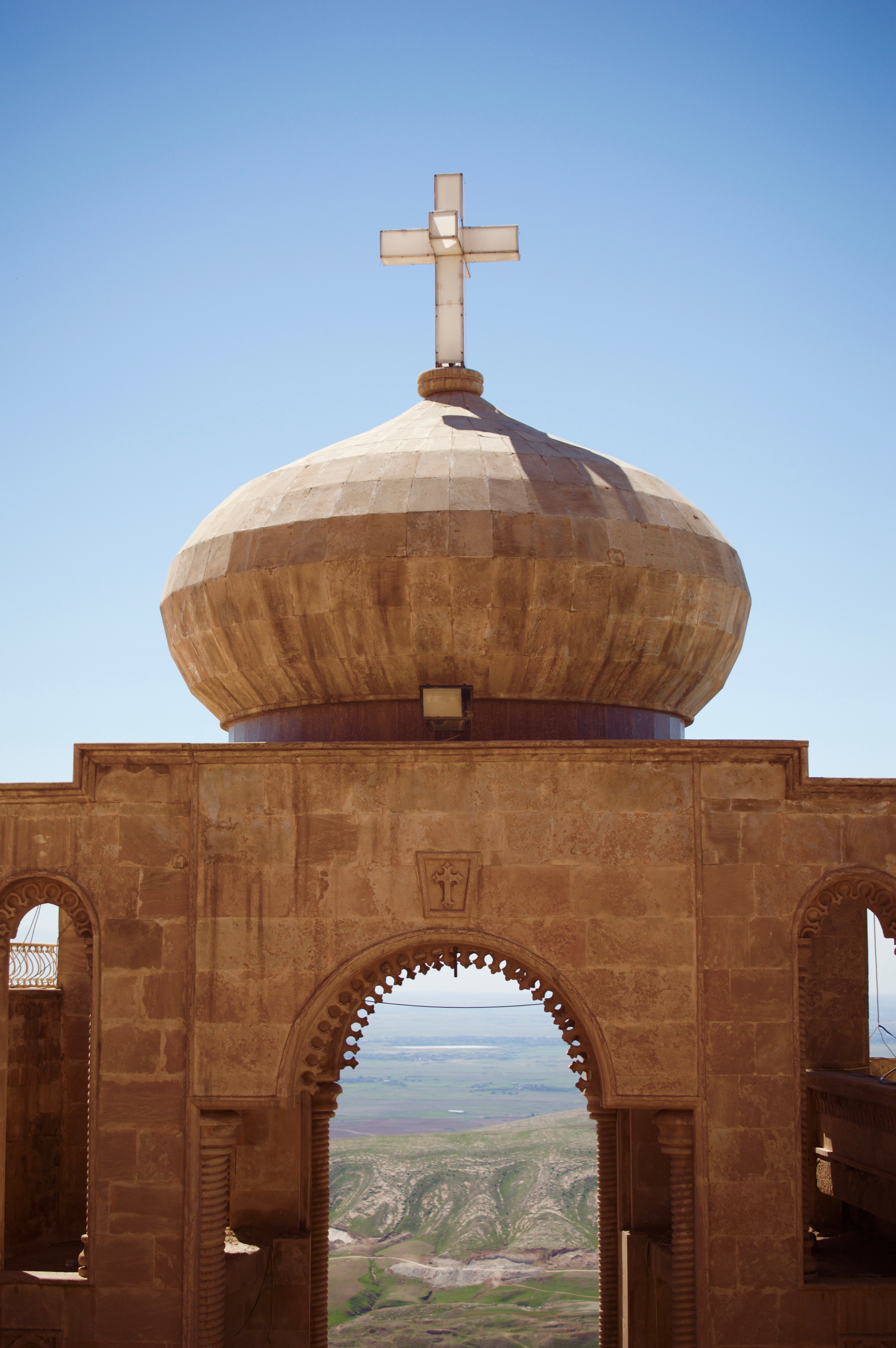 Saint Matthew Monastery (Der Mar Matti), a Syriac Orthodox monastery overlooking the Nineveh Plains towns of Bashiqa and Bartella, in between the Kurdistan Region and Iraq.